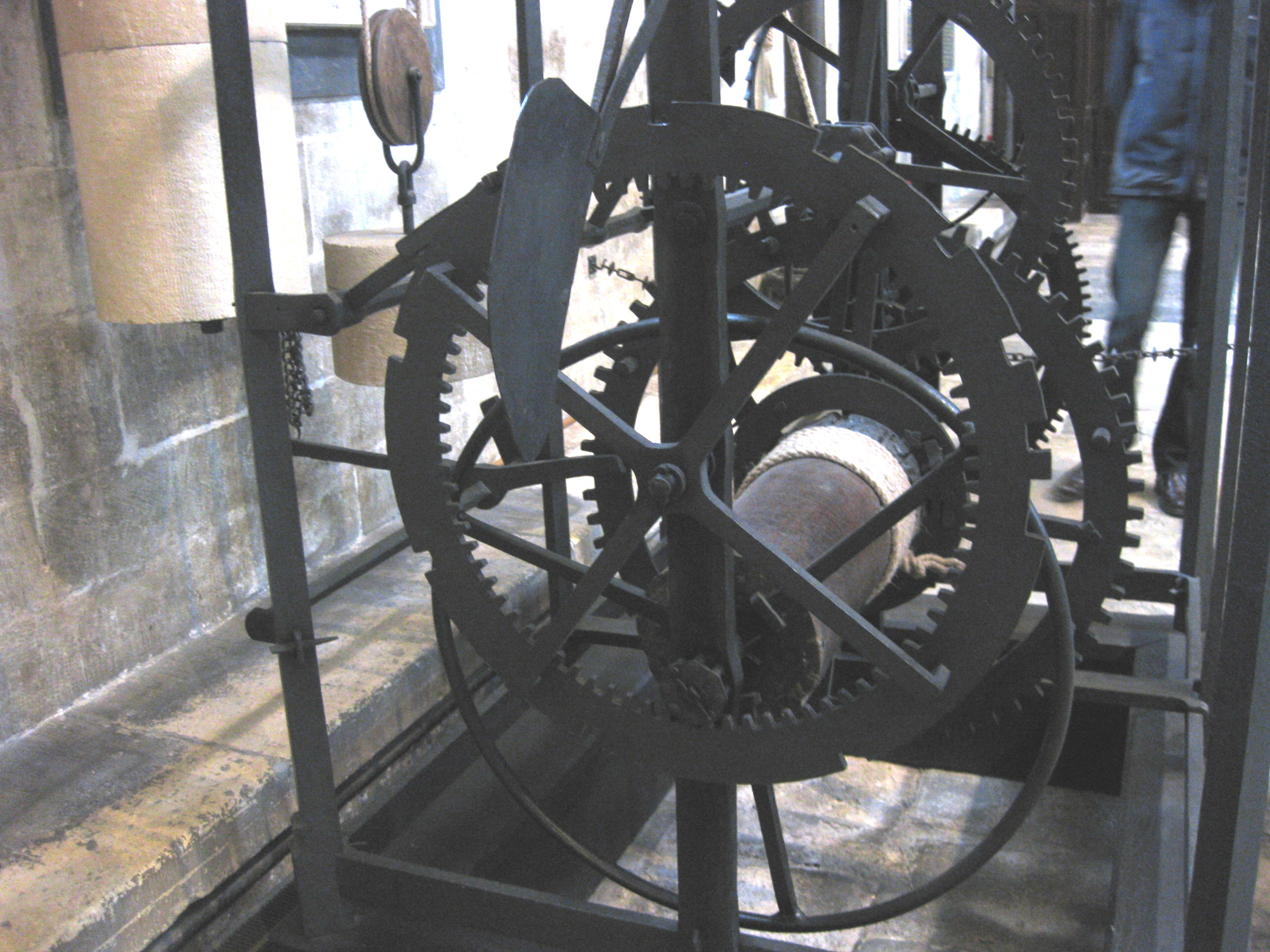 The striking train of the Salisbury cathedral clock